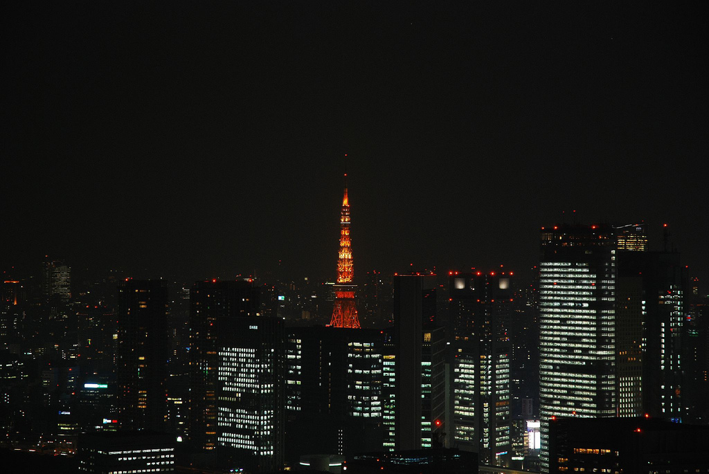 Tokyo Tower